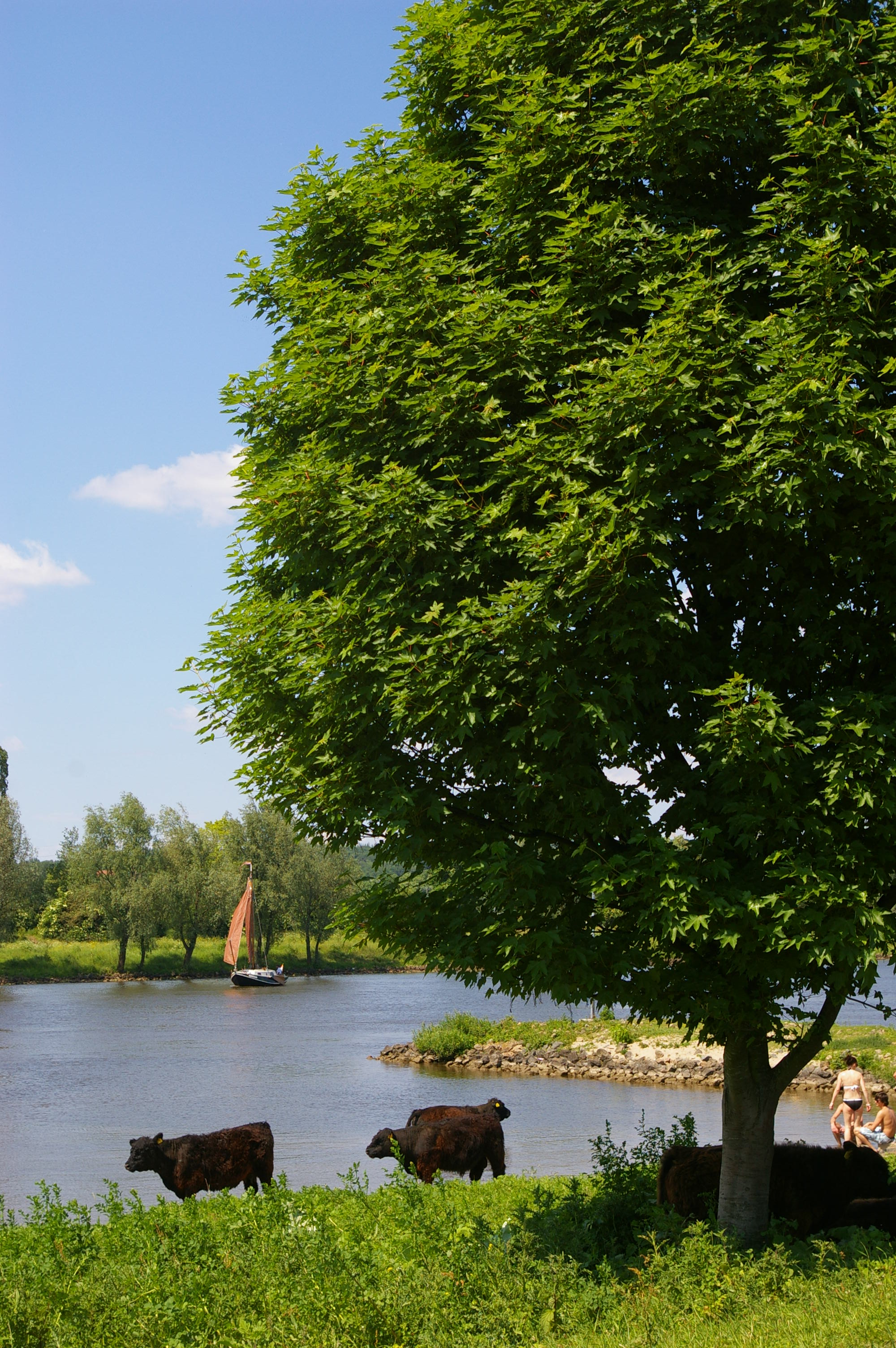 Rhine at Meinerswijk, near Arnhem